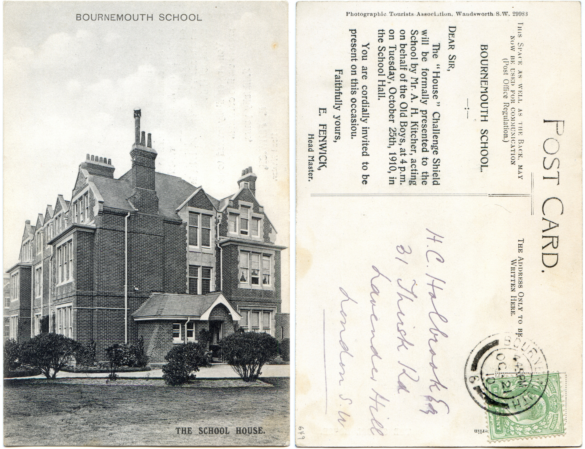 Bournemouth School, Porchester Road